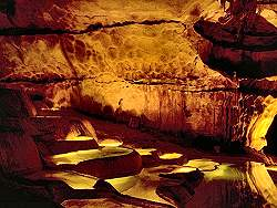 The photograph appears on the page shown under other versions below, and is associated there with the following description: Grotte de St Marcel D'Ardeche, Route touristique des Gorges de l'Ardéche, 07700 Saint-Marcel-d'Ardèche,France. The most spectacular feature of the Grottes de St-Marcel d'Ardèche are the beautiful rimstone pools. The cave is entered through an 80m long adit, which brings the visitors right into the middle of the huge main passage. This passage winds downhill, and has an diameter of about 40m. The first and most spectacular sight are the rimstone pools. Water running down the slope of the passage forms sinter, first with small gours, then continually growing. Today there are a hundred huge pools, with rims more than a meter high and less than 20cm thick. Now the path follows the bend of the passage and down an iron stair into the last chamber, which is full of speleothems. The tour includes a sort of multimedia spectacle at this point. The speleothems are explained with classic music and light effects.